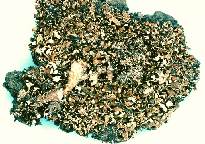 Cladonia strepsilis (Ach.) Grognot (photograph of a herbarium specimen) Growing in dry sterile soil in Riverdale, Prince George's County, Maryland, USA; collected and identified by Elmer G. Worthley (No. LH-79, 22 Feb 1950); specimen is now in the Lichen Herbarium of the New York Botanical Garden.